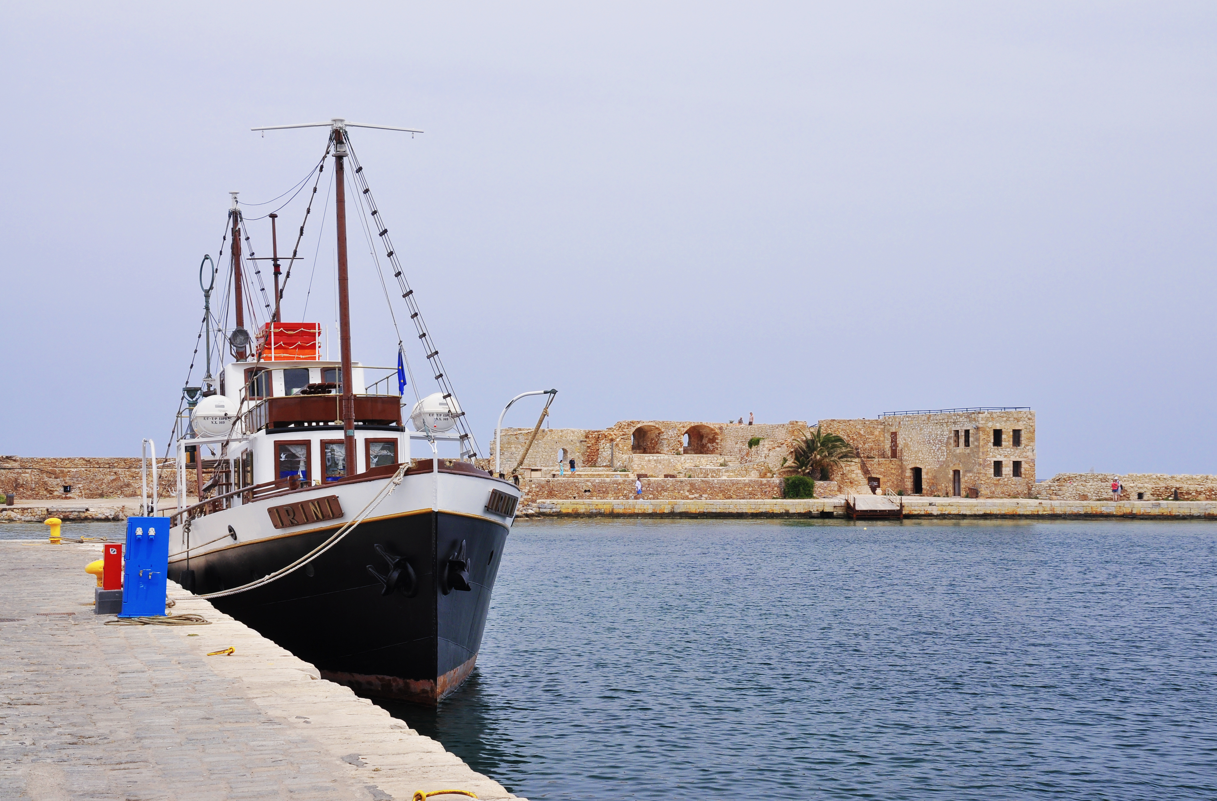 Chania Old Harbour in Crete, Greece.